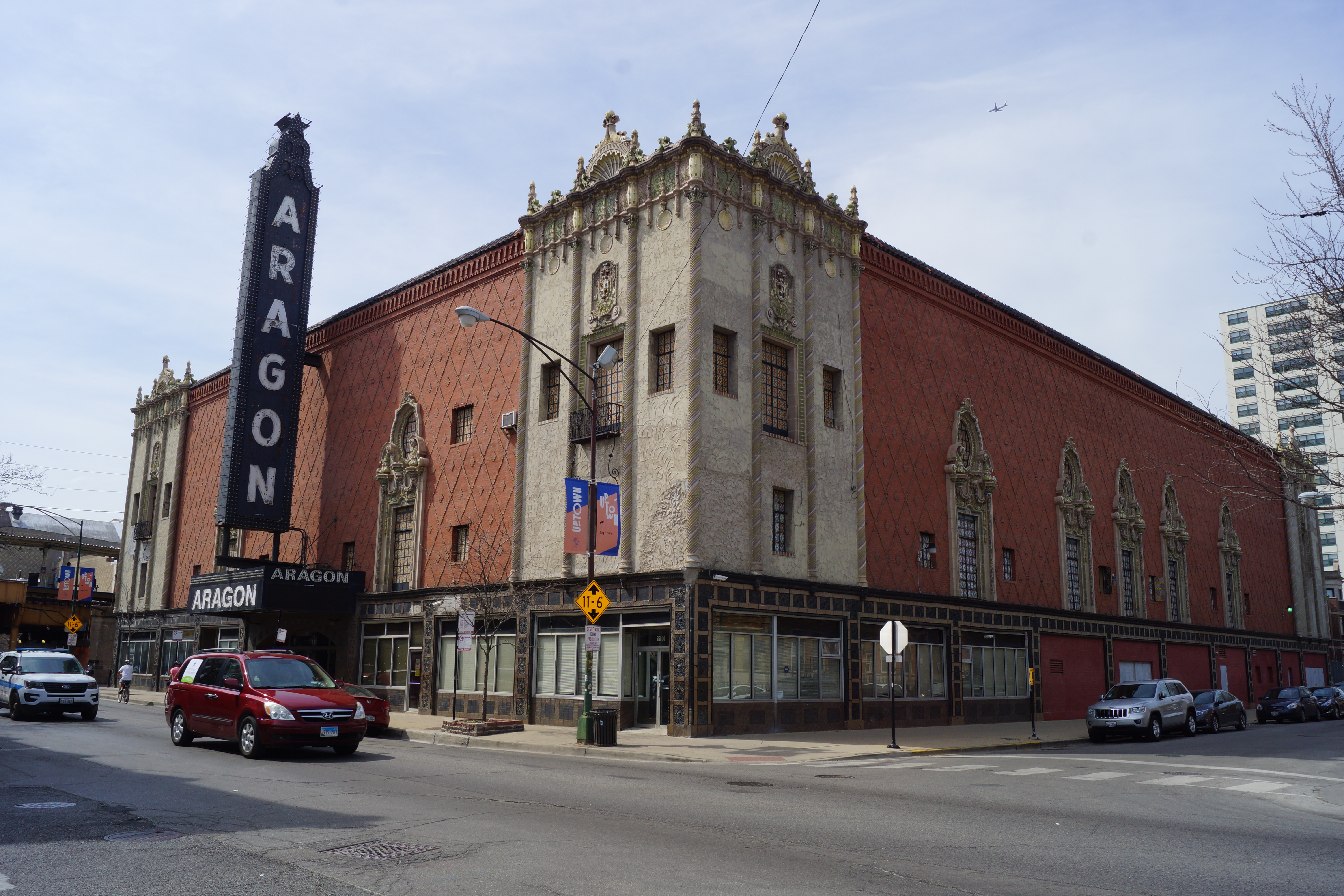 Aragon Ballroom in Chicago, Illinois (2018)